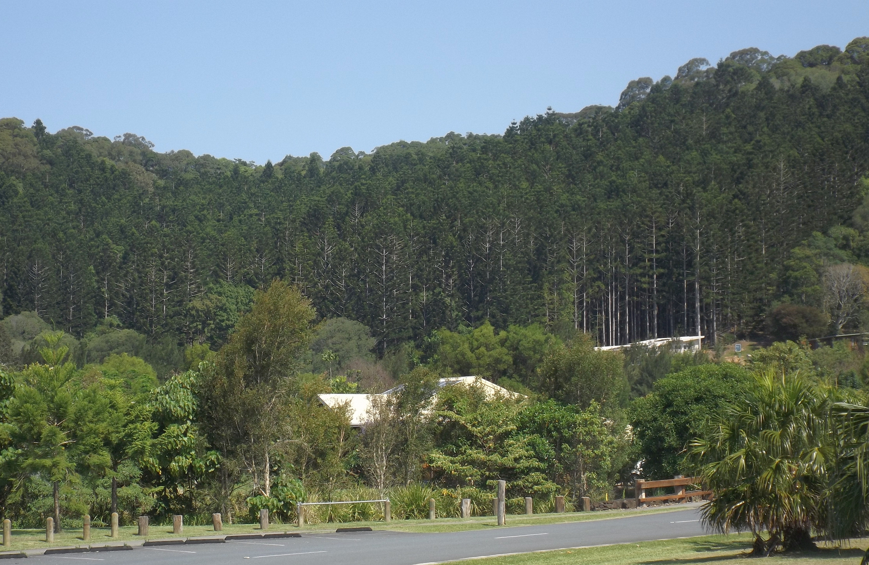 Photo of pine forest, dwellings and gardens at the Currumbin Ecovillage at Currumbin Waters, Gold Coast City, Queensland, Australia.